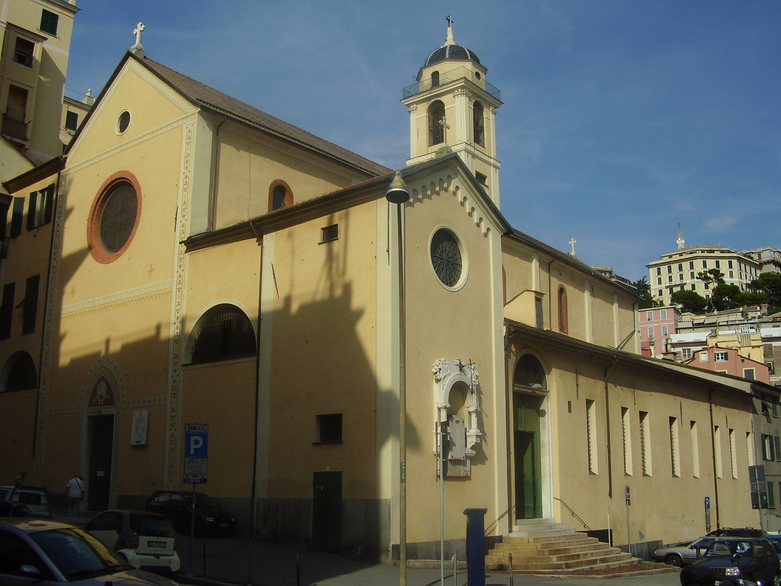 Church of Our Lady of Mount Carmel and Saint Agnes in Genoa